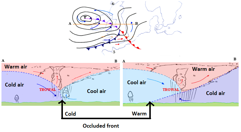 Occlusion where the cold air catch up to the warm front in the cross-section shown by A-B. There is two types : In a cold occlusion, the air mass overtaking the warm front is cooler than the cool air ahead of the warm front, and plows under both air masses. In a warm occlusion, the air mass overtaking the warm front is not as cool as the cold air ahead of the warm front, and rides over the colder air mass while lifting the warm air.